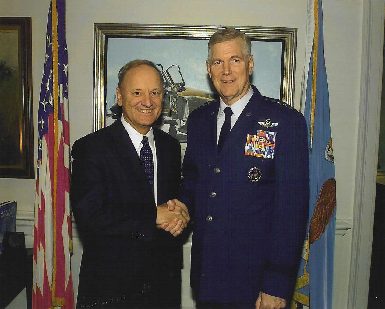 John J. Donovan and General Richard Myers.